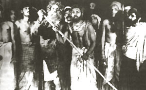 This is a scene of "Nabanna" of the Indian People's Theatre Association (IPTA) in the 1940s.